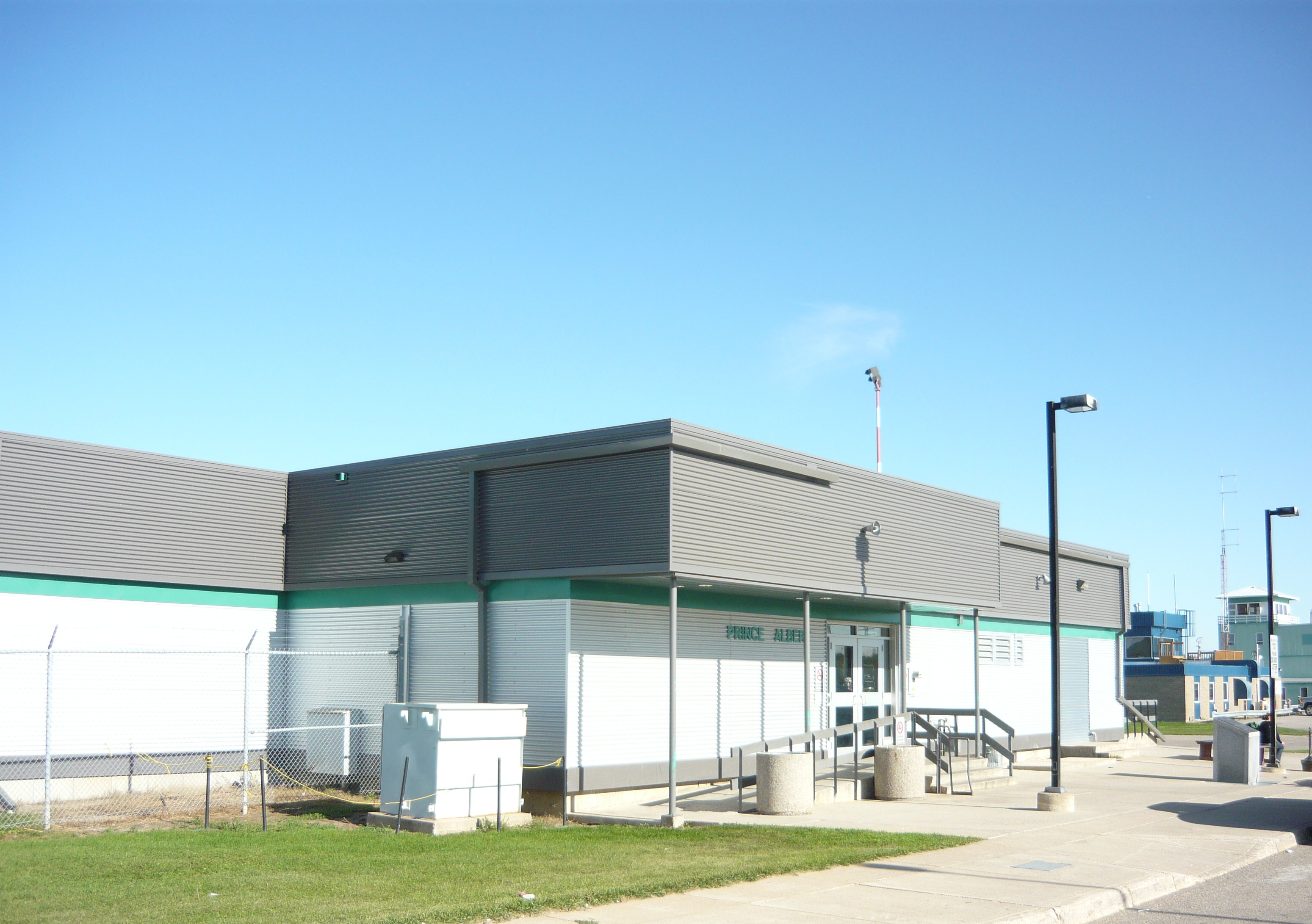 Terminal building at Prince Albert Airport (Glass Field), Airport Road, Weirdale (near City of Prince Albert), Saskatchewan, Canada. IATA code is YPA.